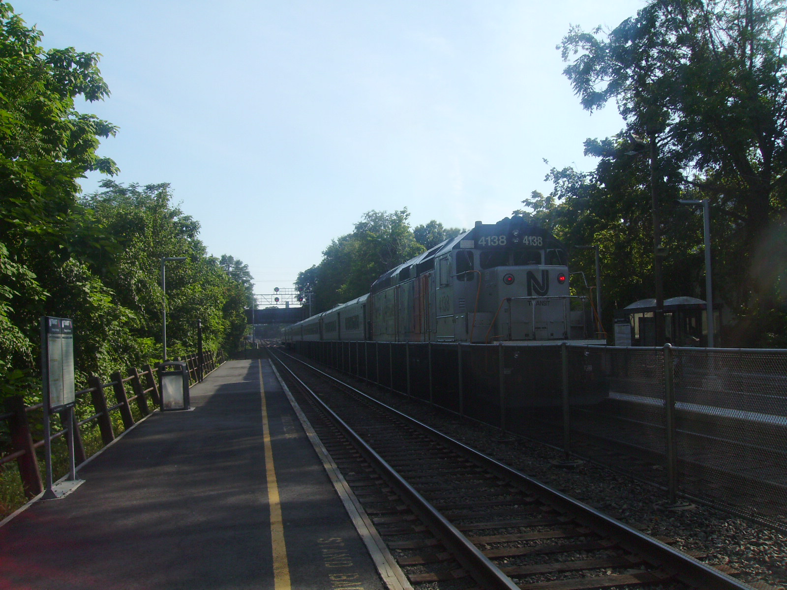 The Hawthorne New Jersey Transit station. A train, tailed by locomotive 4138 heads southbound towards Hoboken.